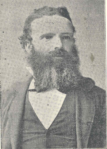 R. J. Berwyn, Chubut